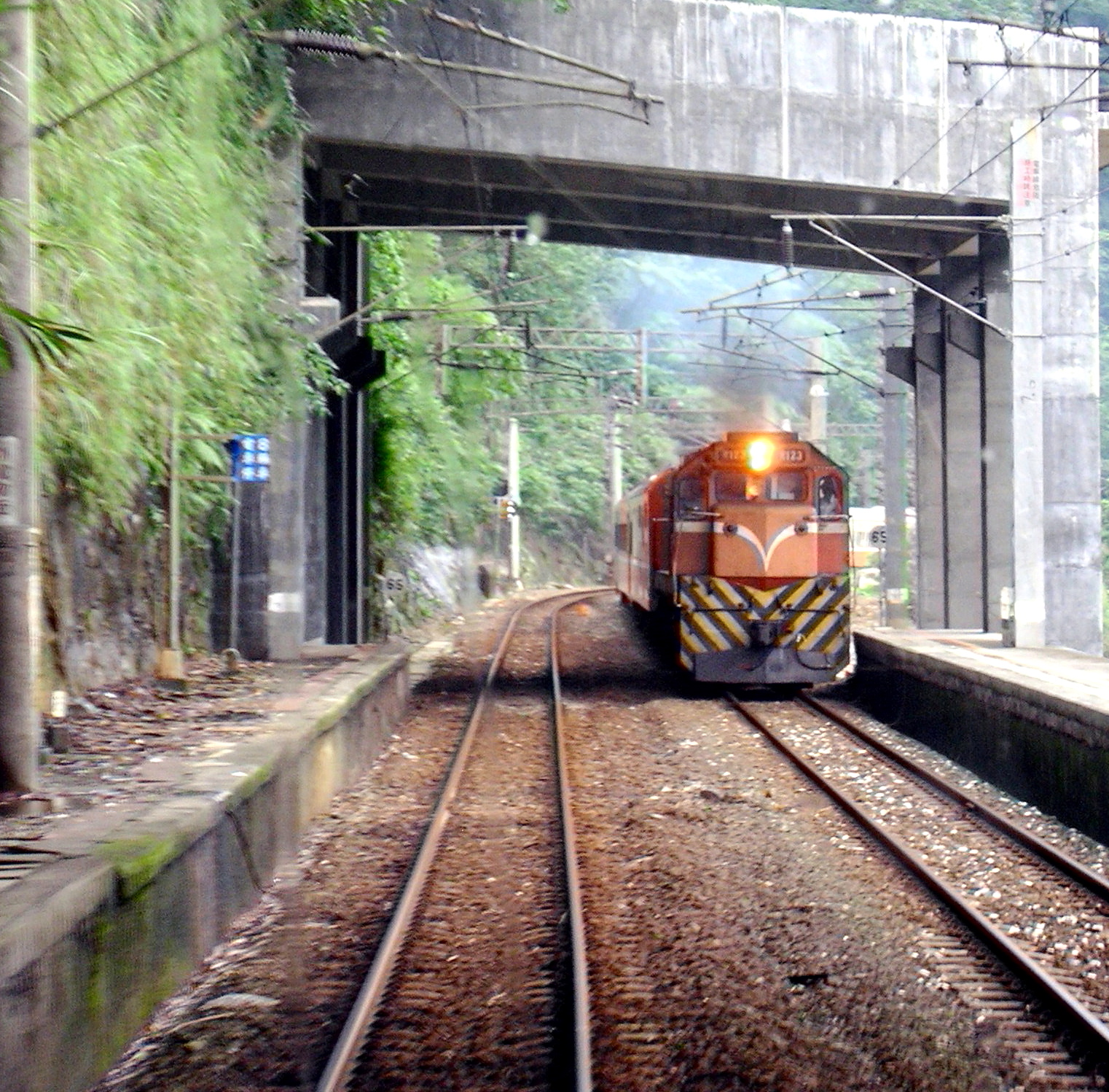 TRA Diesel locomotive R123 passing through the rural Sandiaoling Station on the Yilan Line.